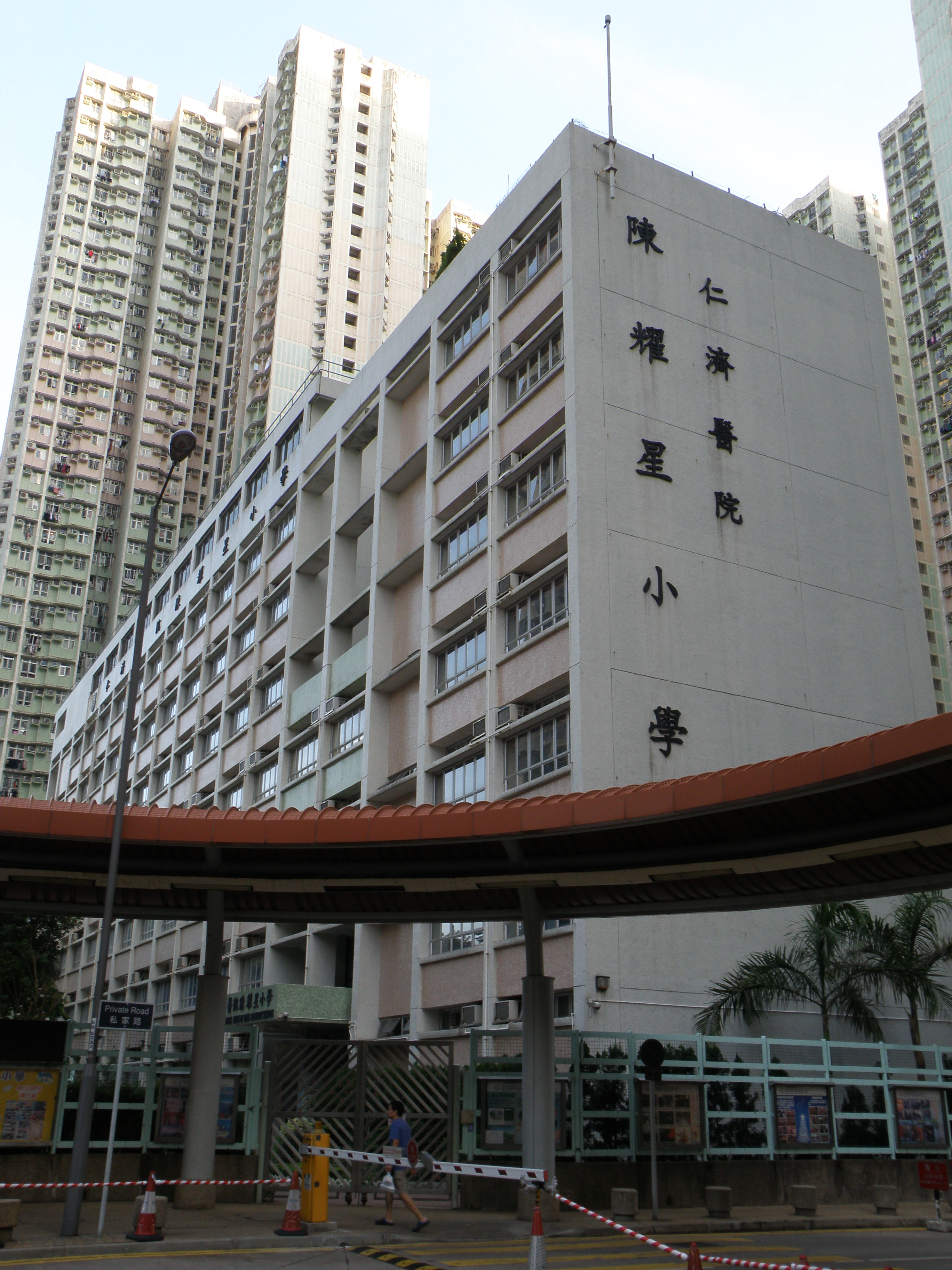 Y.C.H. Chan Iu Seng Primary School in Tseung Kwan O, Hong Kong.